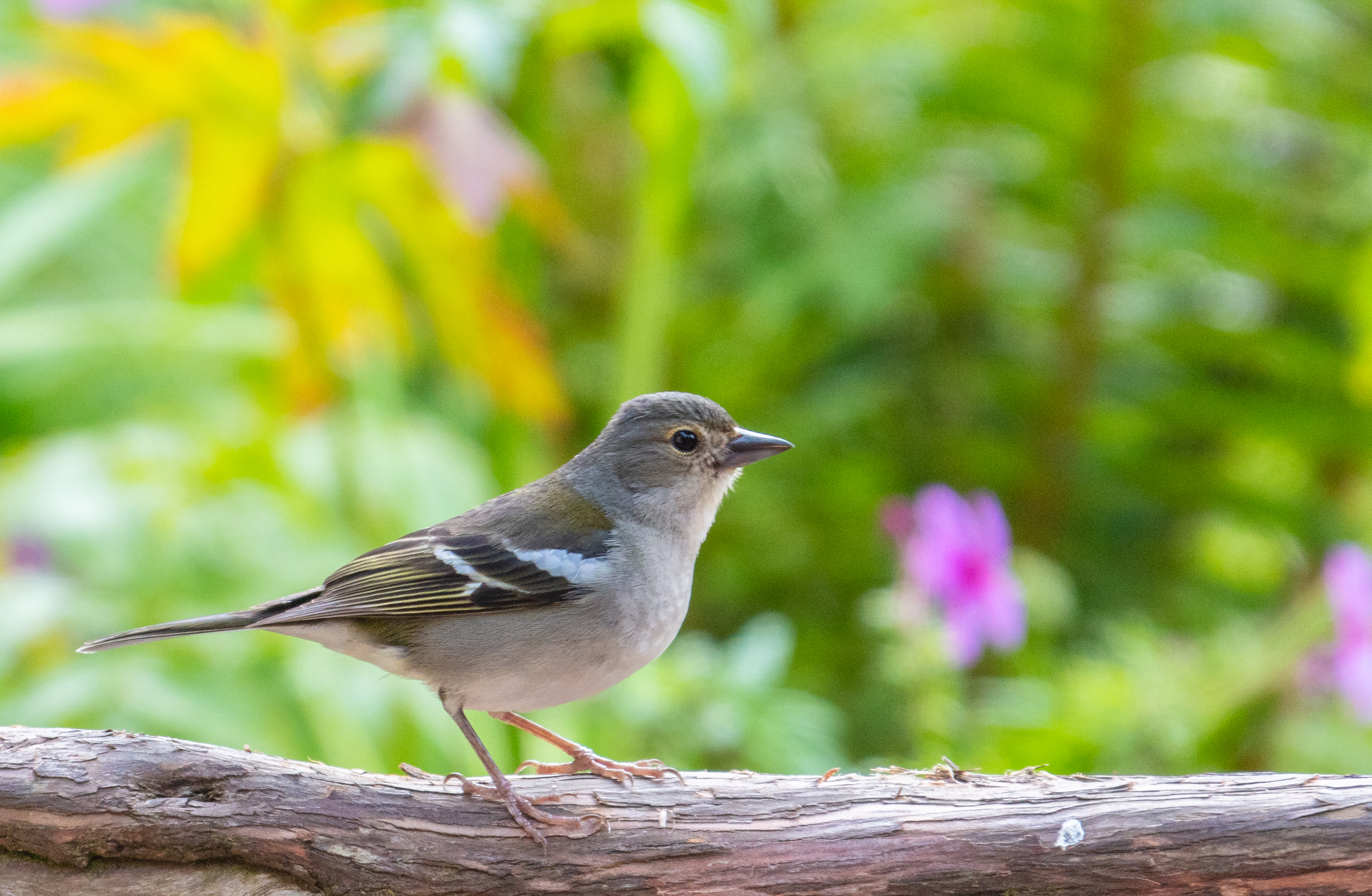 Madeiran chaffinch (Fringilla coelebs maderensis), Madeira, Portugal